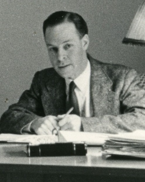 Mr Noël Deschamps, in his office. Mr Deschamps was Australian Charge d'Affaires, Moscow, 1947–1949.